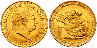 George III of the United Kingdom. 1760-1820. AV Sovereign (7.97 g). Dated 1817. Laureate head right, coarse hair, legend type A St. George slaying dragon. Schneider 631 var. (date); SCBC 3785.